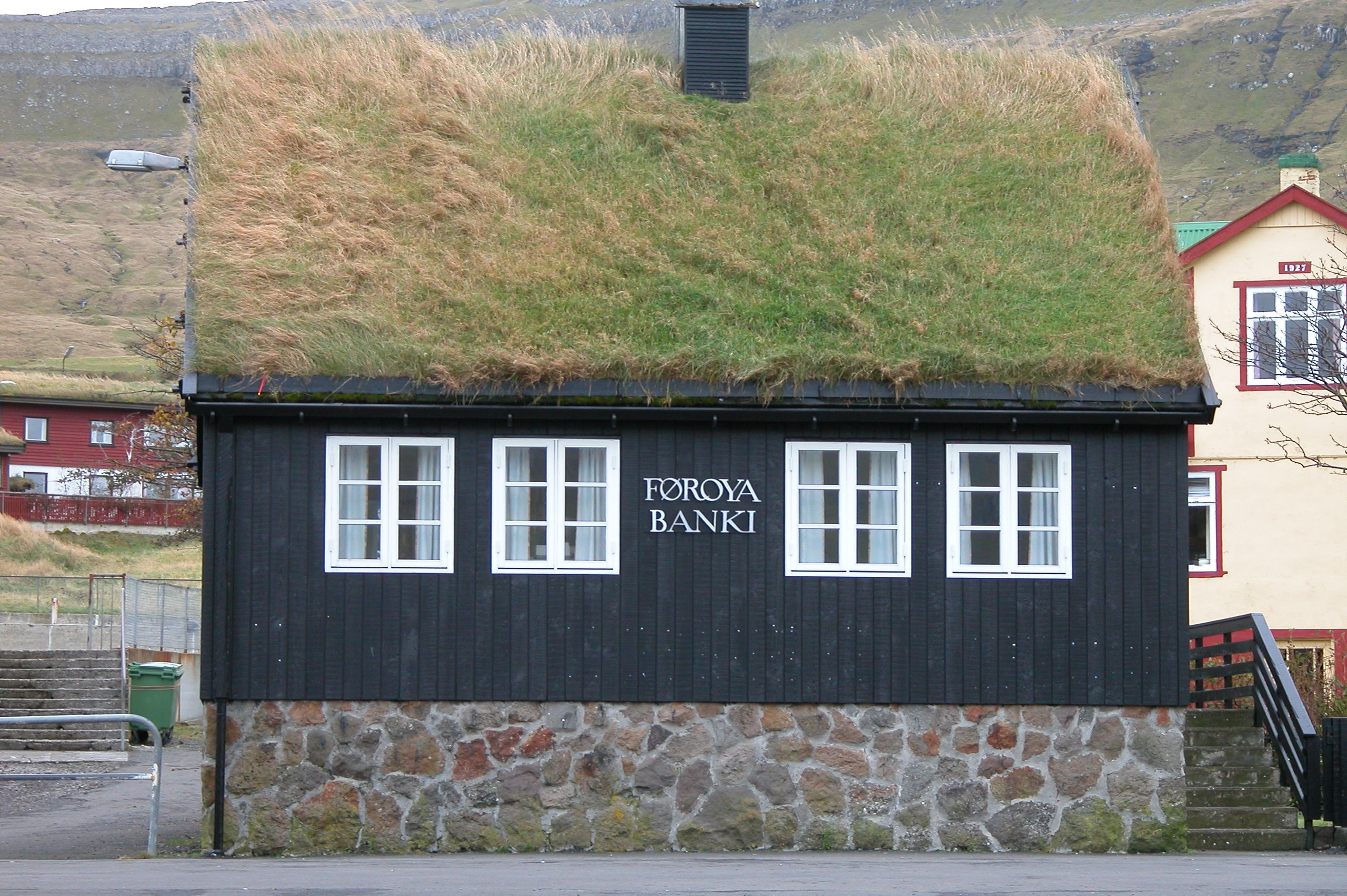 Leirvík in Eysturoy, Faroe Islands: Branch office of Føroya Banki